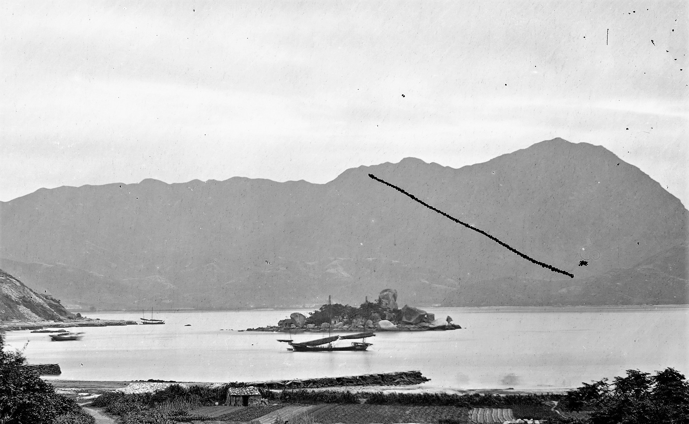 Hoi Sham Island viewed from Kowloon Peninsula, with Kowloon Peak in the background.